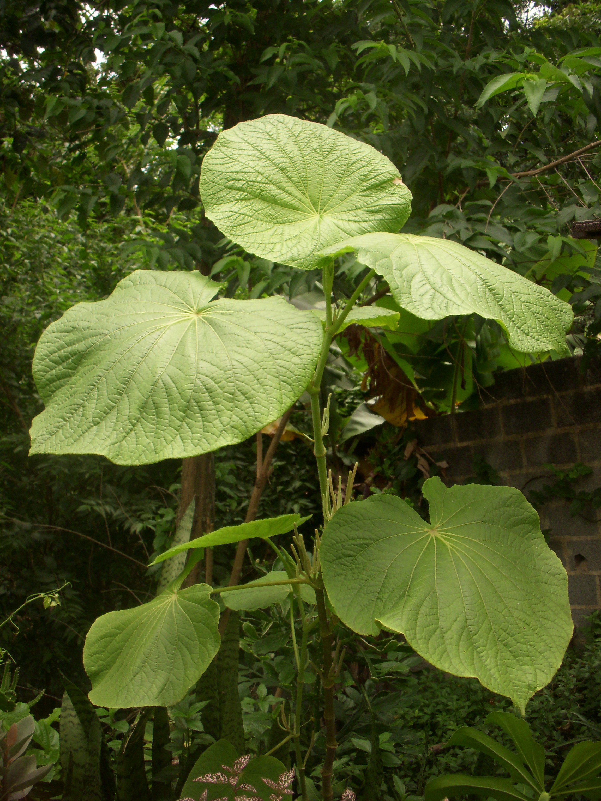 Echinodorus macrophyllus